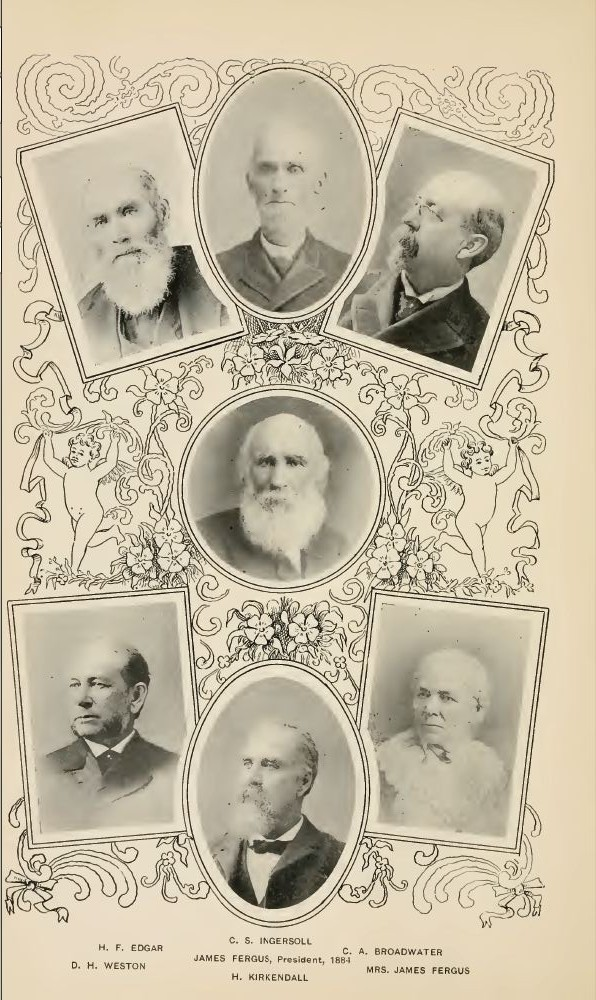 Leaders of the Society of Montana Pioneers, 1884